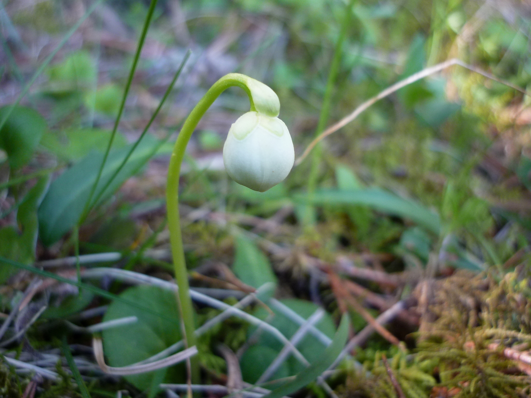 Pyrola uniflora. Floral gem. In Muntanya d'Alinyà (Alinyà, Alt Urgell - Catalunya). To 1.775 m. altitude.